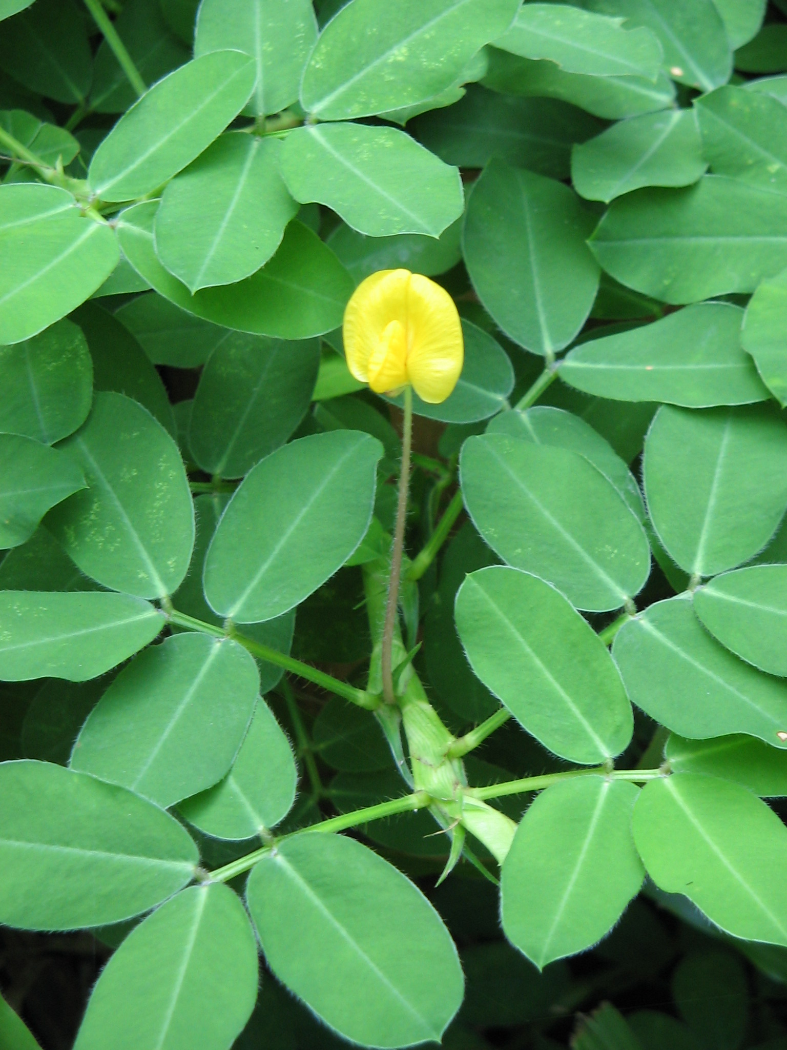 Arachis pintoi